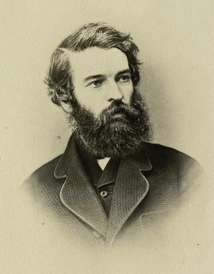 American Transcendentalist Christopher Pearse Cranch, from a heliotype about 1860.